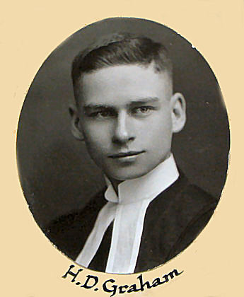 Date: 1921 Photographer: Farmer Bros Reference code: P454